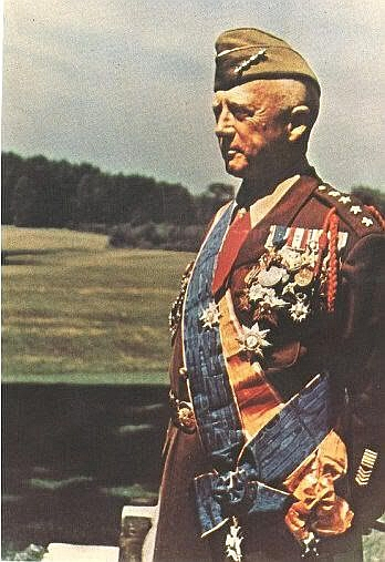 George Patton, US Army, General